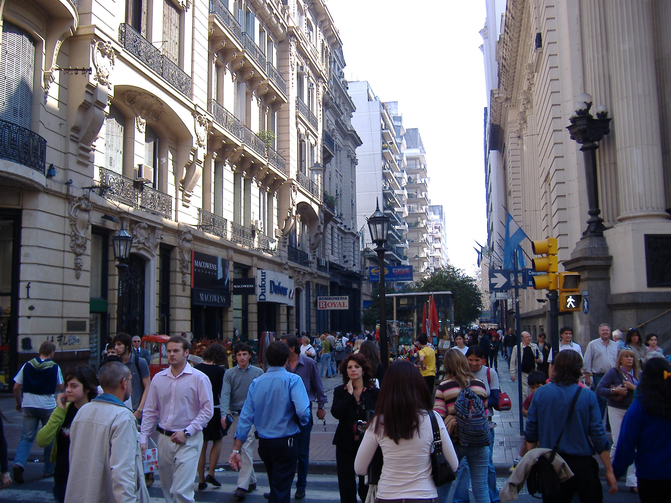 Córdoba St., Rosario, Argentina, facing west across Corrientes Avenue, at the beginning of its pedestrian-only segment. See also Paseo del Siglo.